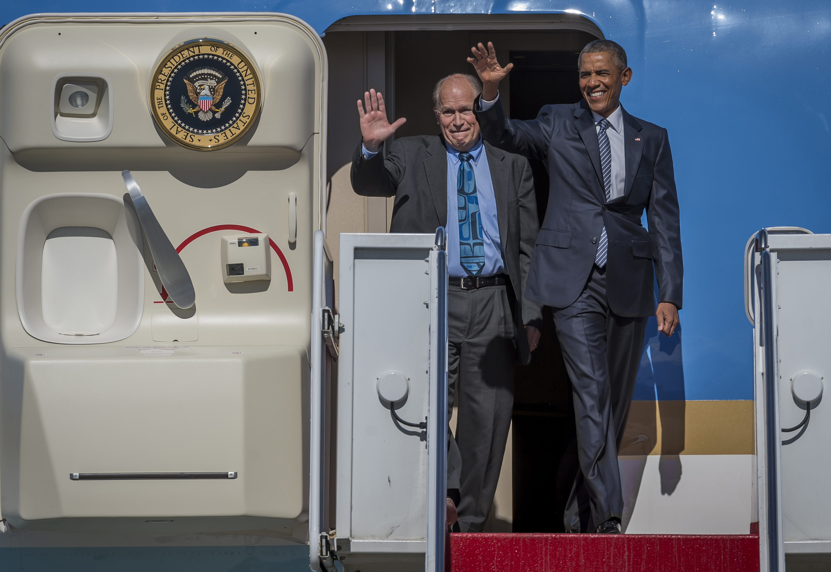 Alaska Gov. Bill Walker, left, and President Barack Obama disembark Air Force One at Joint Base Elmendorf-Richardson, Alaska, Monday, Aug. 31, 2015. Obama was the main speaker at a major event yesterday in Anchorage, Alaska, hosted by the U.S. Department of State entitled the Conference on Global Leadership in the Arctic: Cooperation, Innovation, Engagement and Resilience (GLACIER). GLACIER will focus the world’s attention on the most urgent issues facing the Arctic today and provide an unprecedented opportunity for foreign ministers and key stakeholders to define the region’s most crucial challenges; highlight innovative ways in which these challenges can be addressed at the local, national and international levels; and broaden global awareness of the impacts of Arctic climate change. (U.S. Air Force photo/Justin Connaher)